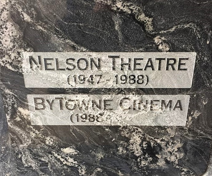 nelson and bytowne cinema dates engraved onto wall at the Bytowne cinema in Ottawa